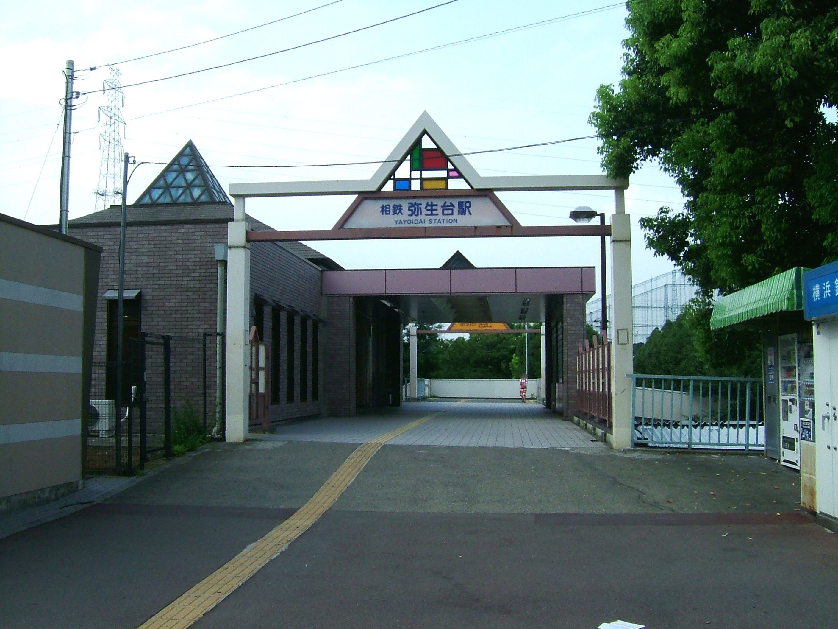 The south-side entrance to Yayoidai Station on the Sagami Railway Izumino Line in Izumi-ku, Yokohama, Japan